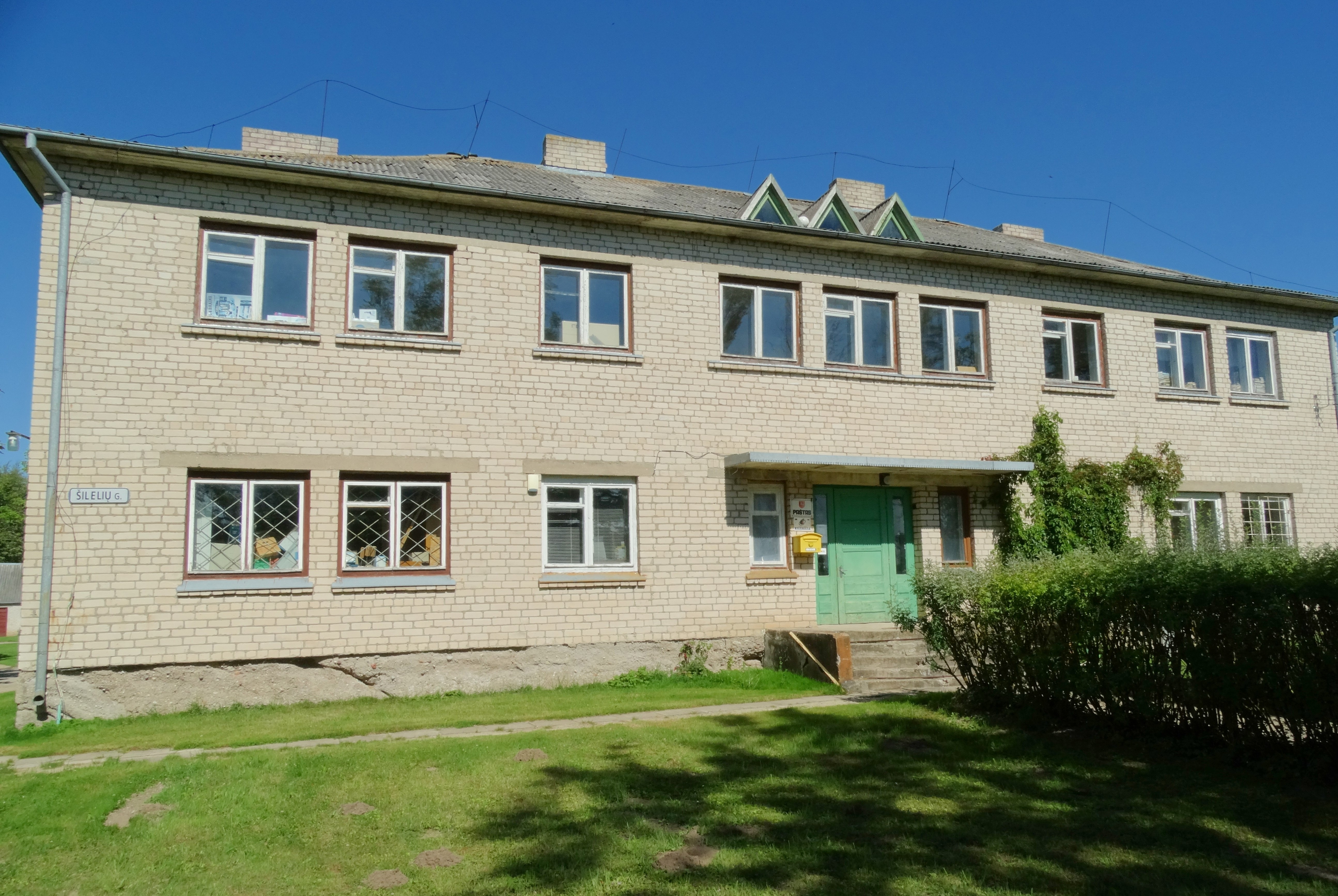 Kalviai Post Office in Plikiškiai, Joniškis District, Lithuania